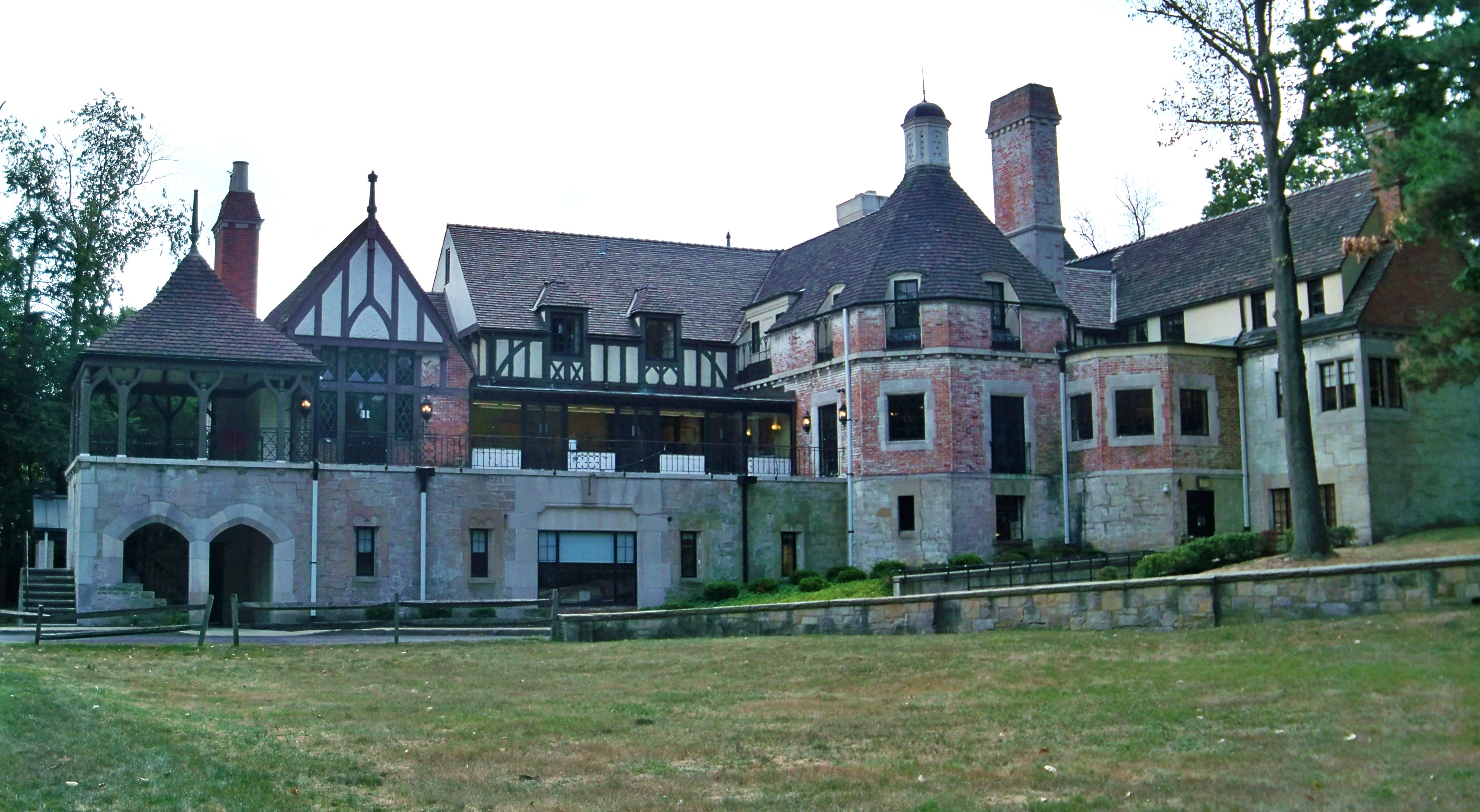 The back of the William E. Telling Mansion in South Euclid, Ohio. As of 2012 this building is the South Euclid-Lyndhurst Branch of the Cuyahoga County Public Library.